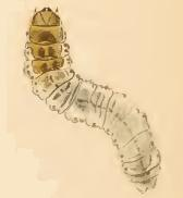 Stainton’s Natural History of the Tineina (1855–1873): Incurvaria koerneriella